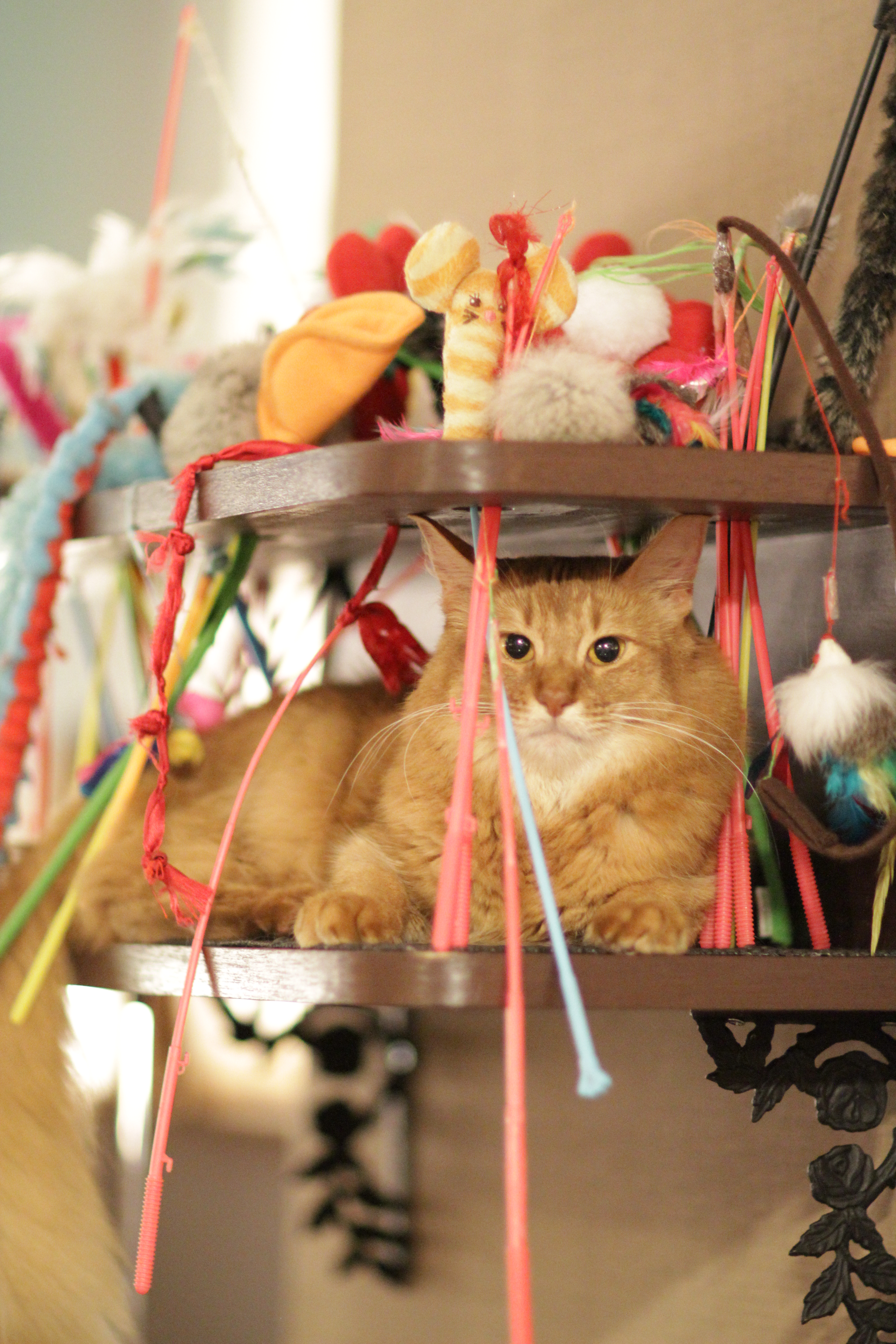 I bet the cat want someone to play with :D This picture is taken at Cat Cafe "Calico" located Shinjuku, Tokyo. Info of the cat: Name: Roo Gender: Female Type: Somali